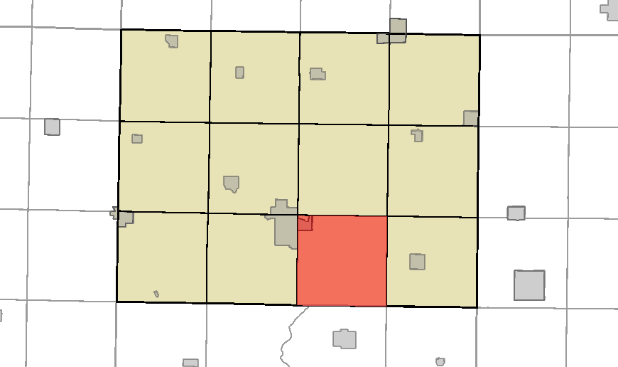 This is a map of Humboldt County, Iowa, USA which highlights the location of Beaver Township.